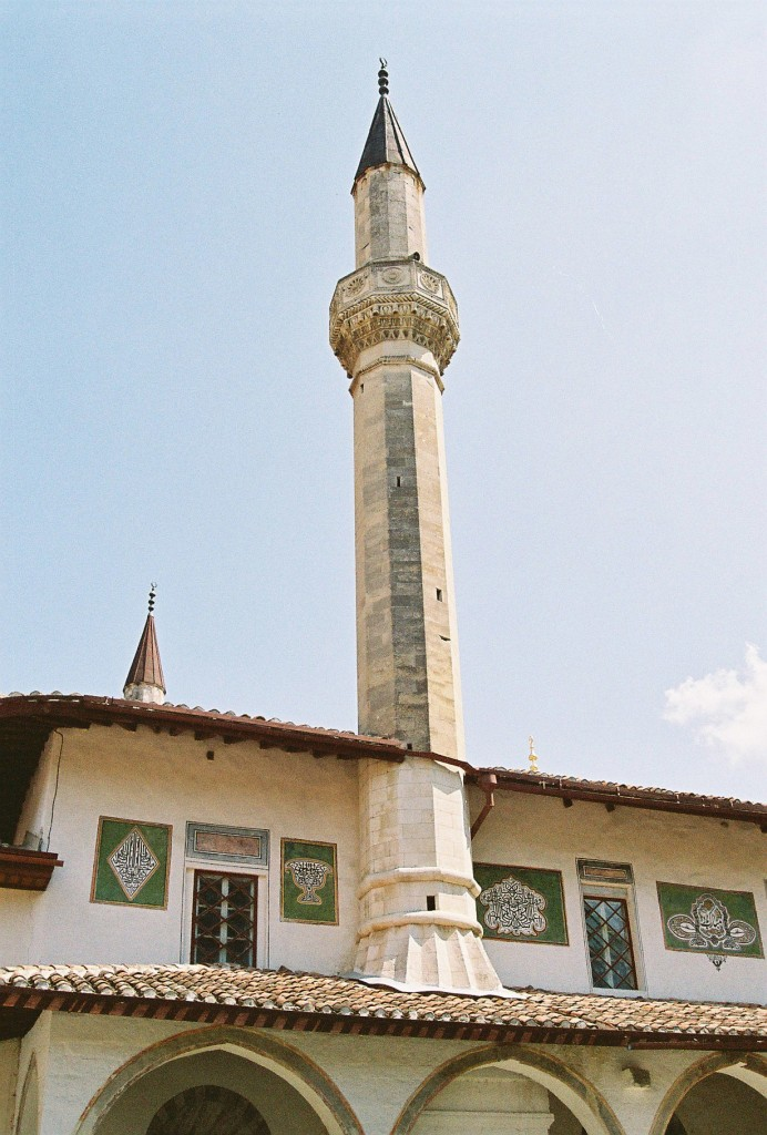 Close-up view of the mosque of Hansaray in Bakhchisaray, Crimea.